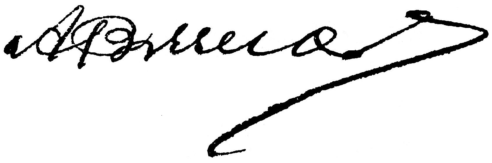 A signature of Andrey Vyazlov, a member of the First Russian State Duma